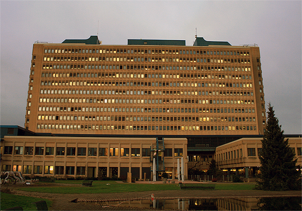 Hospital of Baden AG in Dättwil, Switzerland